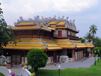 Wehart chamrun residentail hall at Bang Pa In Royal Palace, Thailand